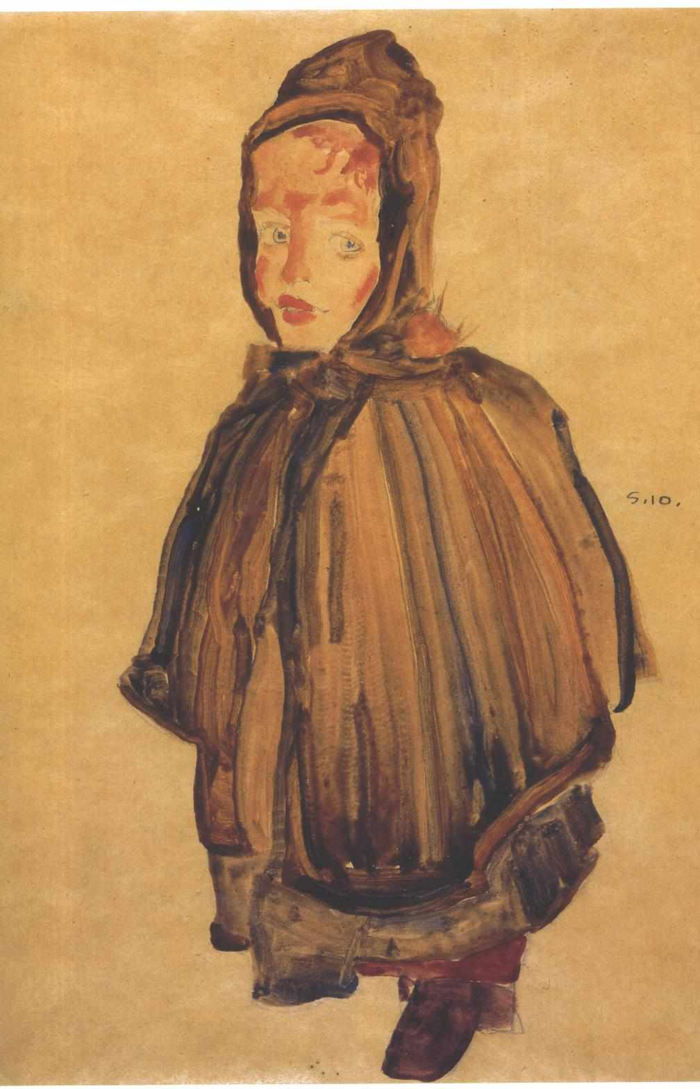 Girl with hood